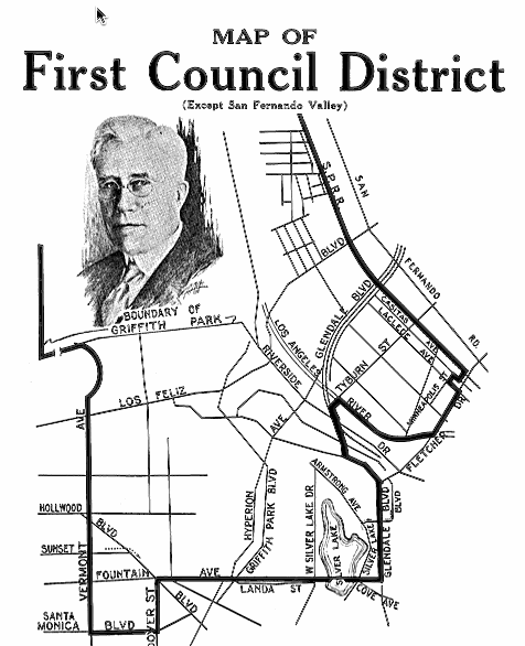 This is a historic campaign flier used by Los Angeles City Council member Charles Randall in the mid-1920 showing the southern area of District No. 1 when it reached into the main part of Los Angeles south of the Santa Monica Mountains. It also has a portrait of Randall, the incumbent council member and a candidate.